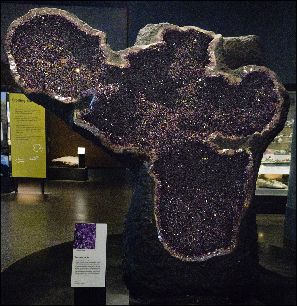 Amethyst-filled Geode from Rio Grande do Sul, Brazil (1.8 m high, weight: 1000 kg) - exposed at the National Museum of Scotland (Amethyst geode fact file at the website of National Museum of Scotland)